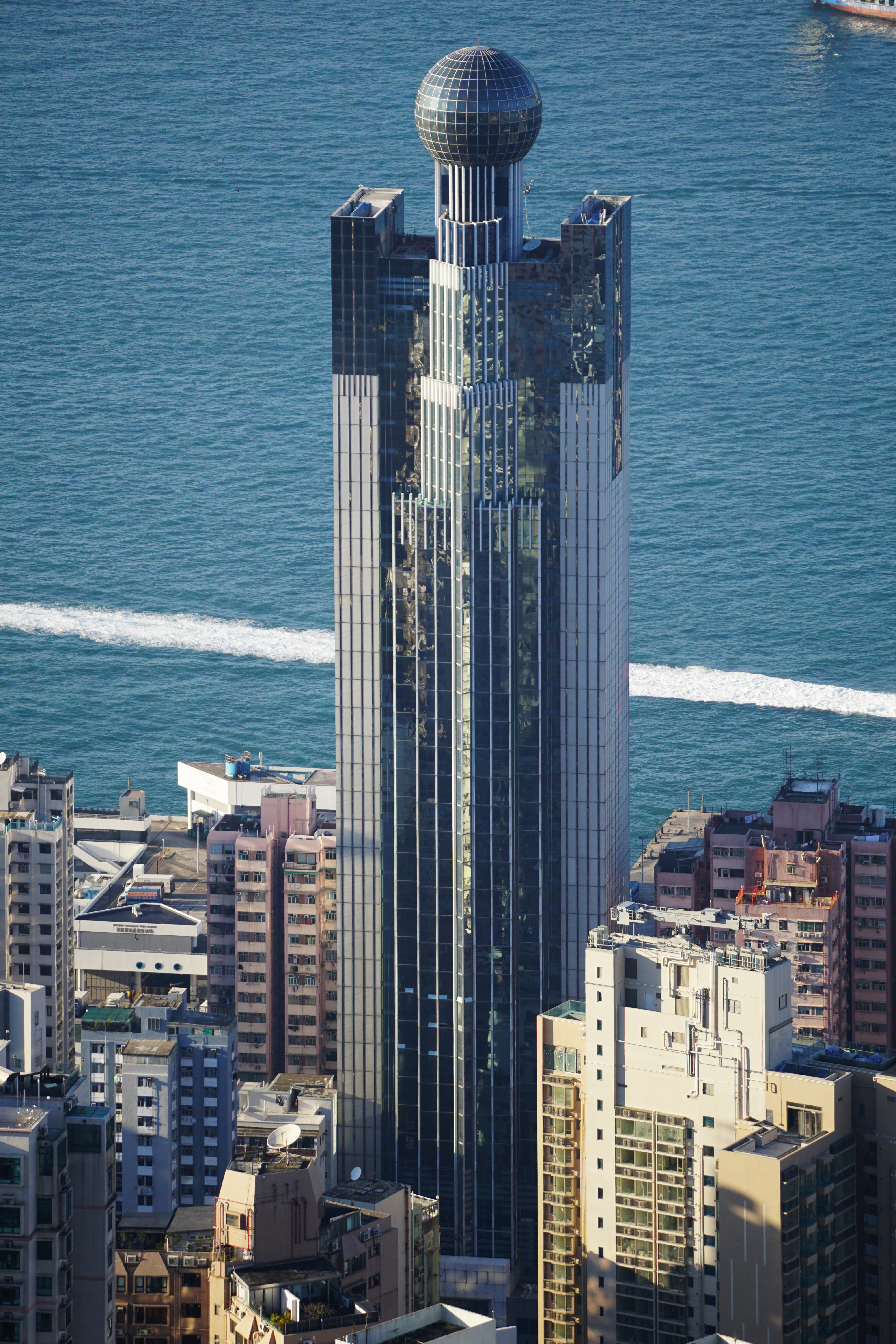 China Merchants Group The Westpoint in Sai Ying Pun, Hong Kong.